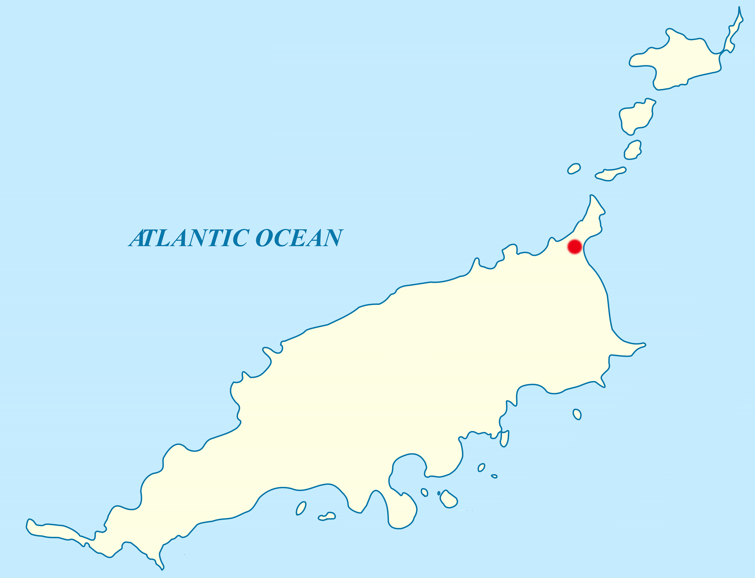 Map of Fernando de Noronha showing the location of the site where fossils of various animals, including Noronhomys vespuccii, have been found (Carleton and Olson, 1999, American Museum Novitates 3256: fig. 2).